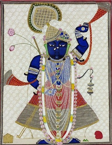 "The blue-skinned god Krishna is shown dressed in a patterned robe and bedecked with jewels and garlands, standing before a cloth of white floral material. Originally from Nathdwar Temple, Rajasthan"